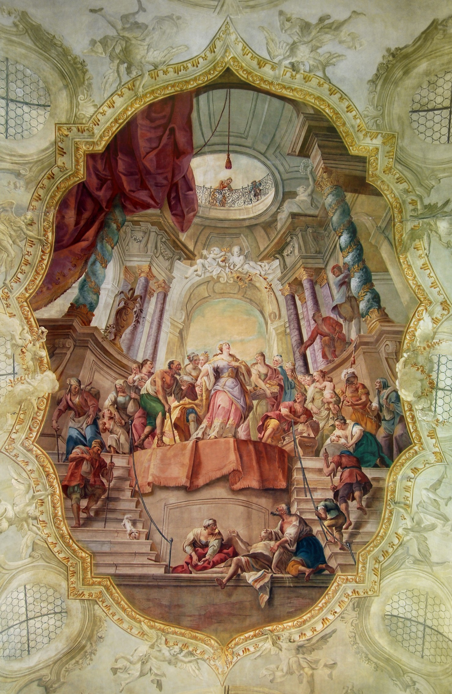 ceiling fresco at Beuggen castle church, Rheinfelden, Germany